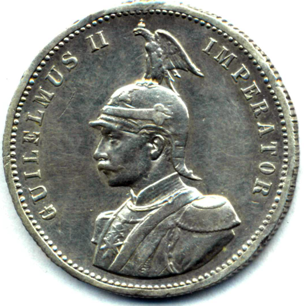 Obverse of 1 german eastafrikan rupie 1890. Coin from my collevtion, scan was made by me personally